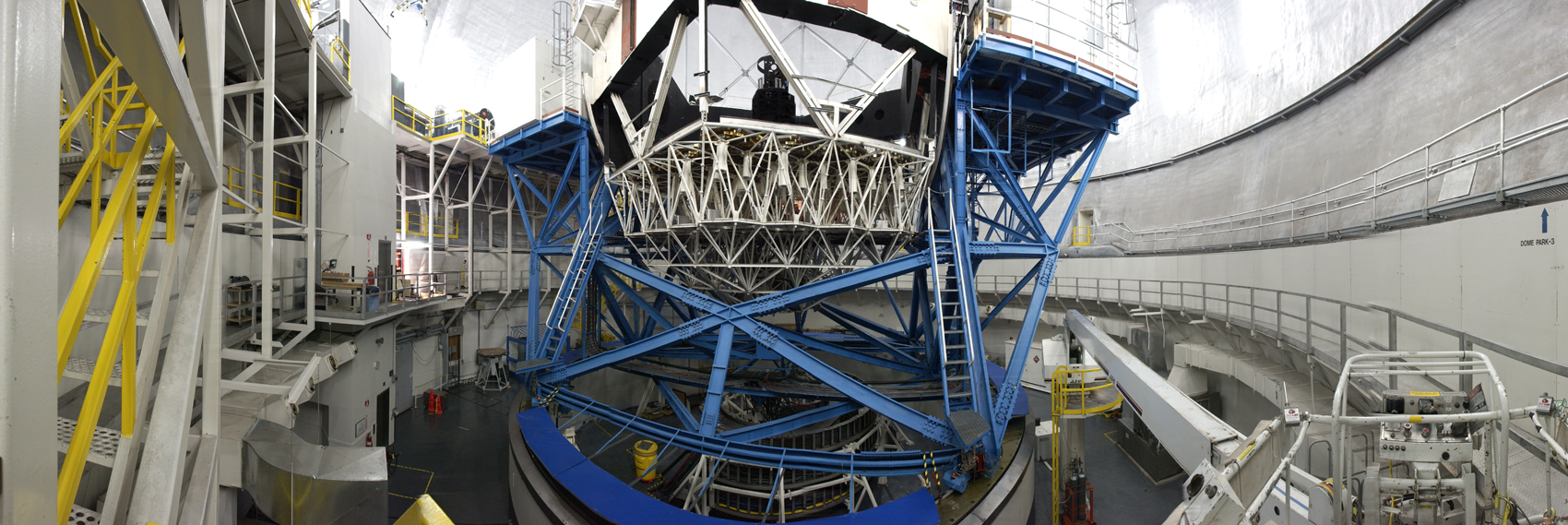 Base structure of keck mirror telescope